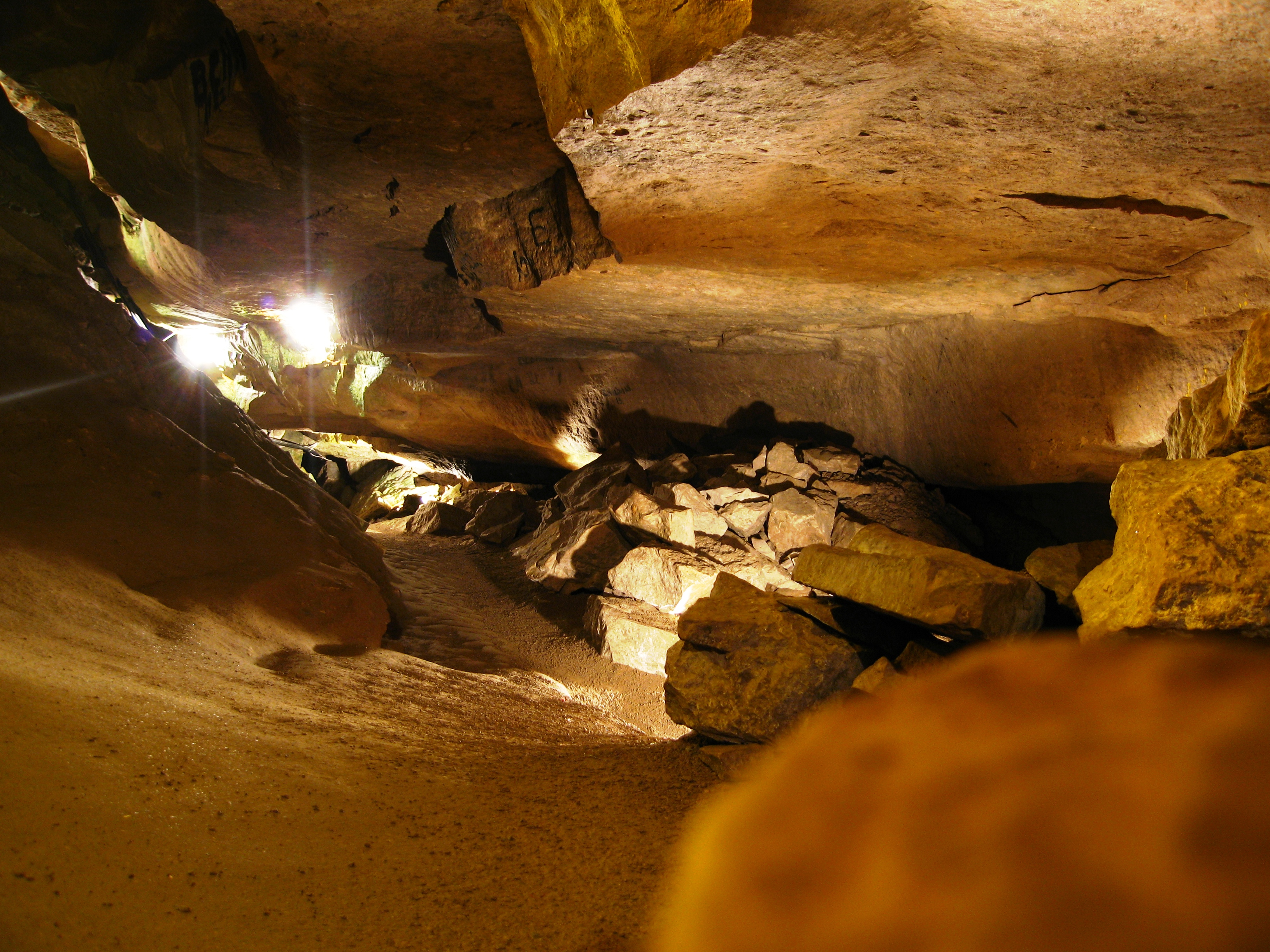 A long exposure photograph of one of the largest subterranean galleries at Seneca Caverns, a show cave near Flat Rock, Ohio.